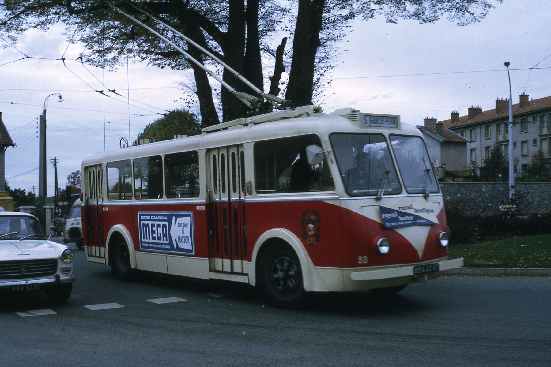 Limoges trolleybus 30, a 1953 Vétra CB60, in 1972.